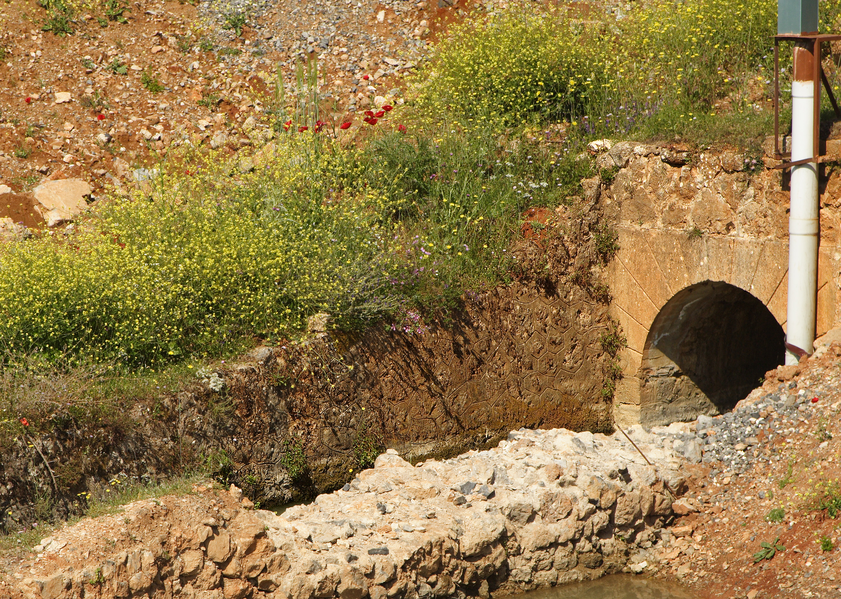 Historical masterpiece of 130 AD, after repairs 1881-1885 in use again.